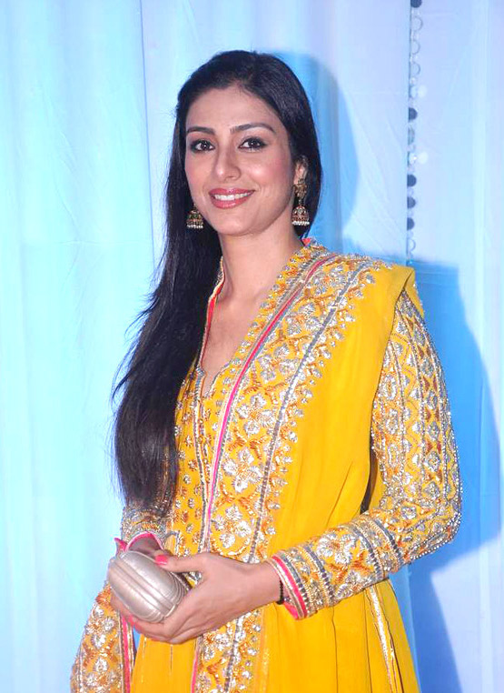 Tabu at Esha Deol's wedding reception